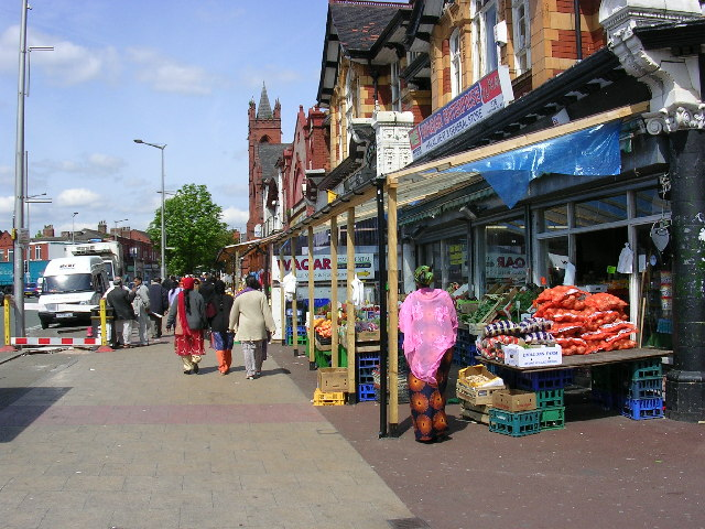 Cheetham Hill Road in the Cheetham Hill area of Manchester, England.